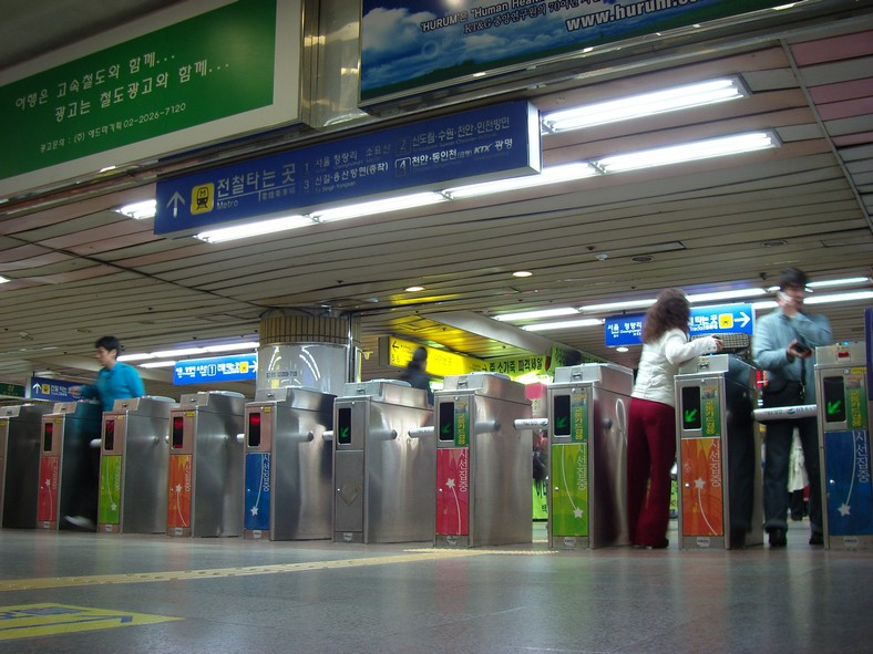 Yeongdeungpo Station